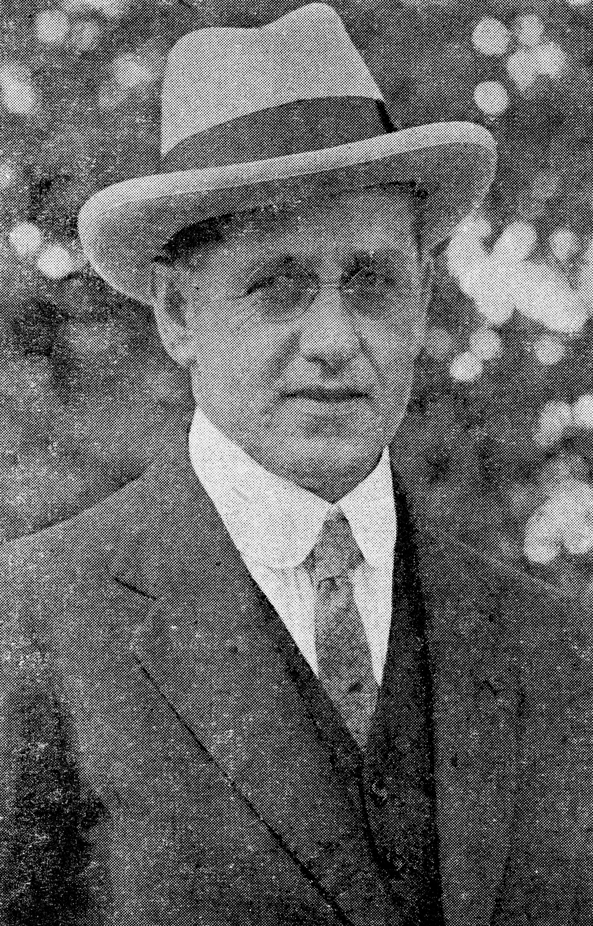 H.C. Richards, first Professor of Geology at the University of Queensland, Photo courtesy of the University of Queensland Archives Sept1947 S170